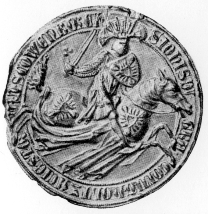 Seal of Johan of Holstein (dead 1359). This seal is known from documents dating 1322-1345.